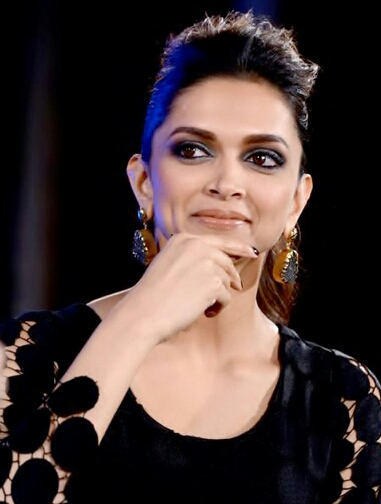 Deepika Padukone at an event for Van Heusen